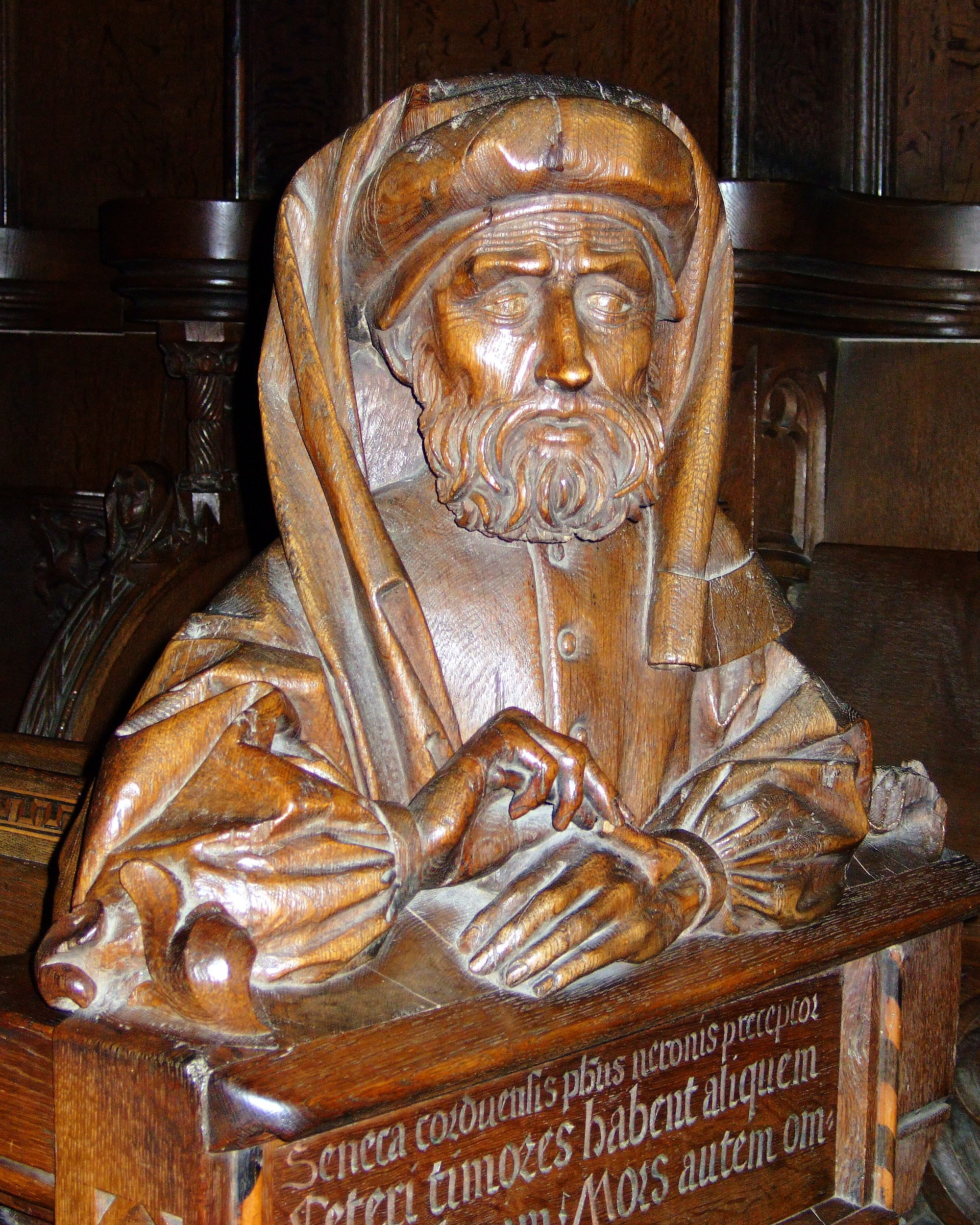 The Lutheran cathedral "Ulm Münster" of Ulm/Germany, carved bust of Seneca